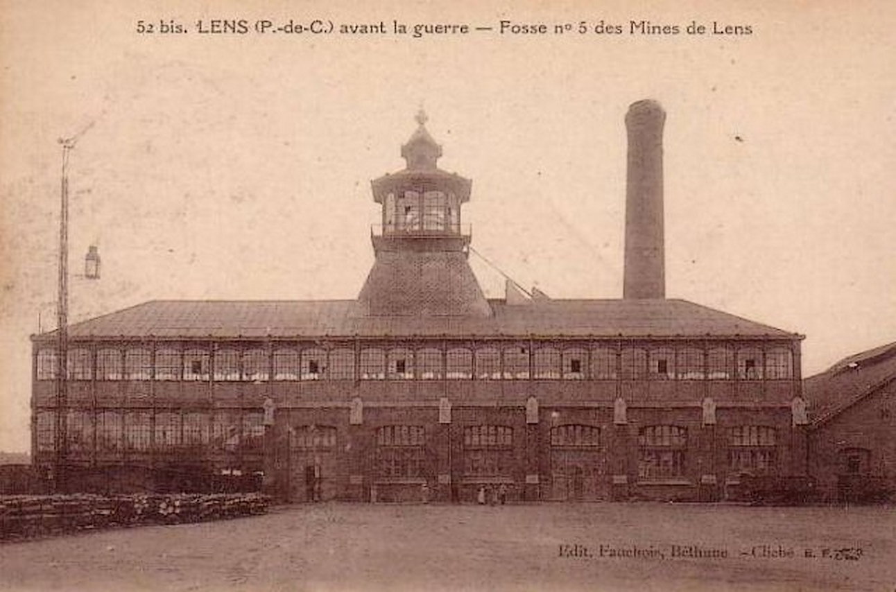 Coalpits n° 5 - 5 bis, Compagnie des mines de Lens, Avion, Pas-de-Calais, France.